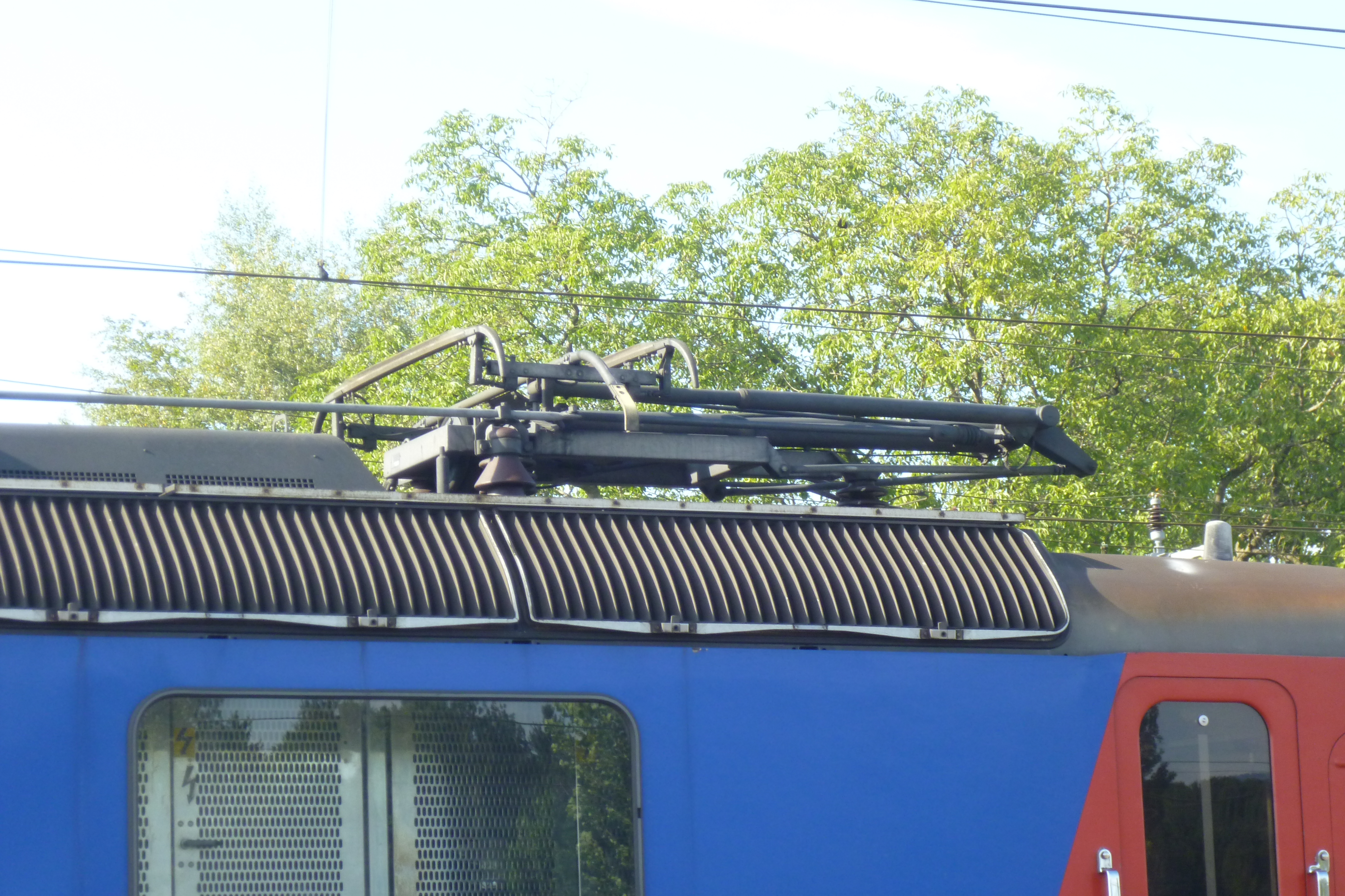 Rotkreuz train stationSBB Re 421 380-7(SBB Re 4/4 II 11380) of 3rd seriesPantograph type Schunk with contact shoes 1950 mm for Germany